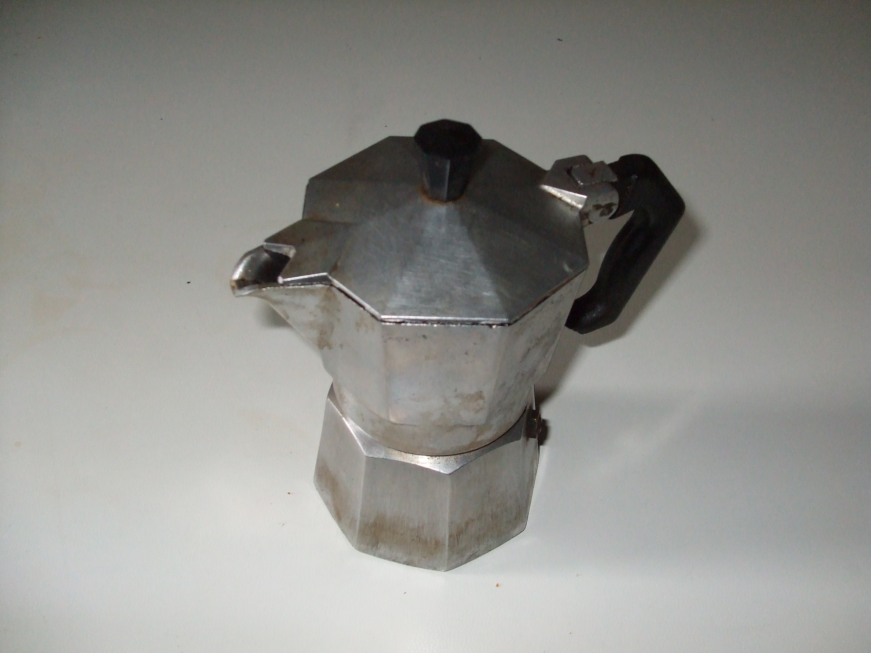 Coffee machine